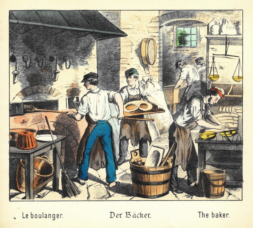 The baker